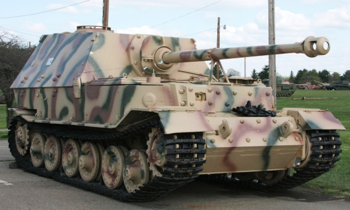 Panzerjäger Tiger Elefant tank destroyer used by German Wehrmacht in WWII. Restored by and on display at US Army Ordnance Museum, Aberdeen, Maryland. Photograph taken by Scott Dunham, April 23, 2009.